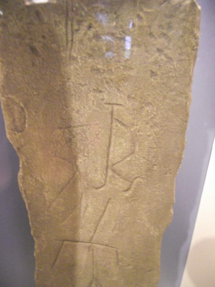 Copy of the supposed gravestone of João Rodrigues Cabrilho that was found on Santa Rosa Island, on display at Maritime Museum of San Diego, California, USA.